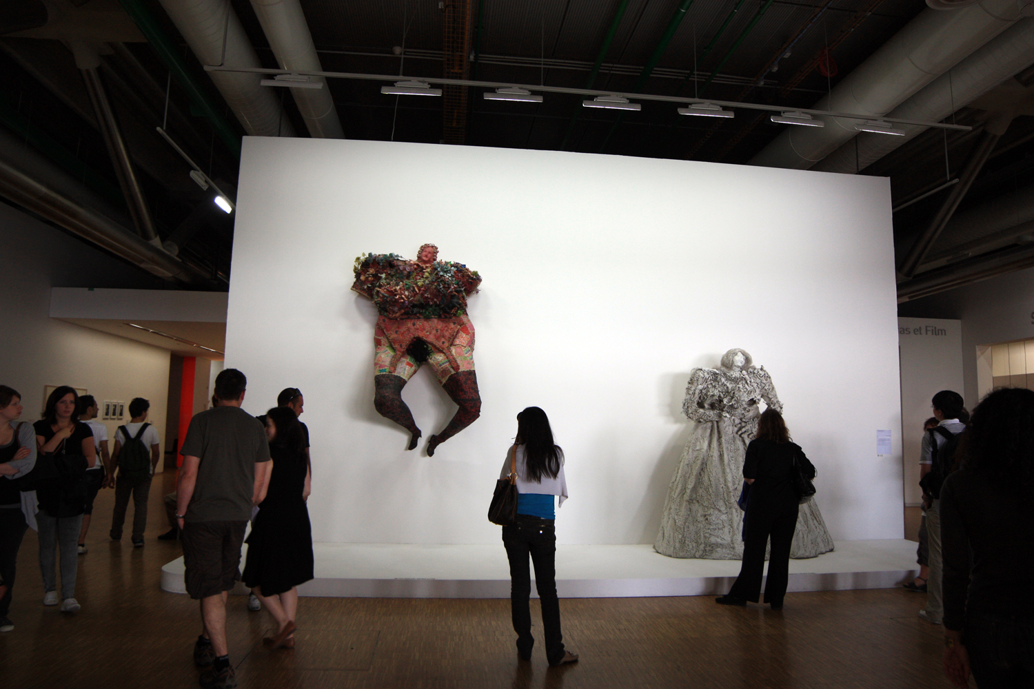 Pompidou Centre interior